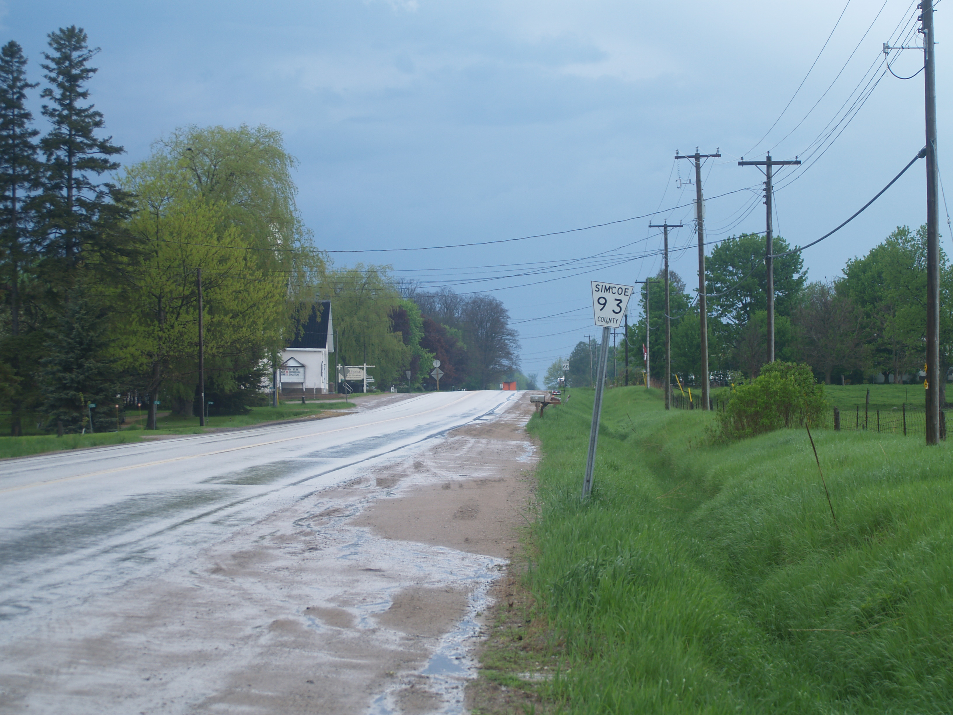 Highway 93 in the community of Dalston. Highway 93 was downloaded between Barrie and Craighurst on April 1, 1997.